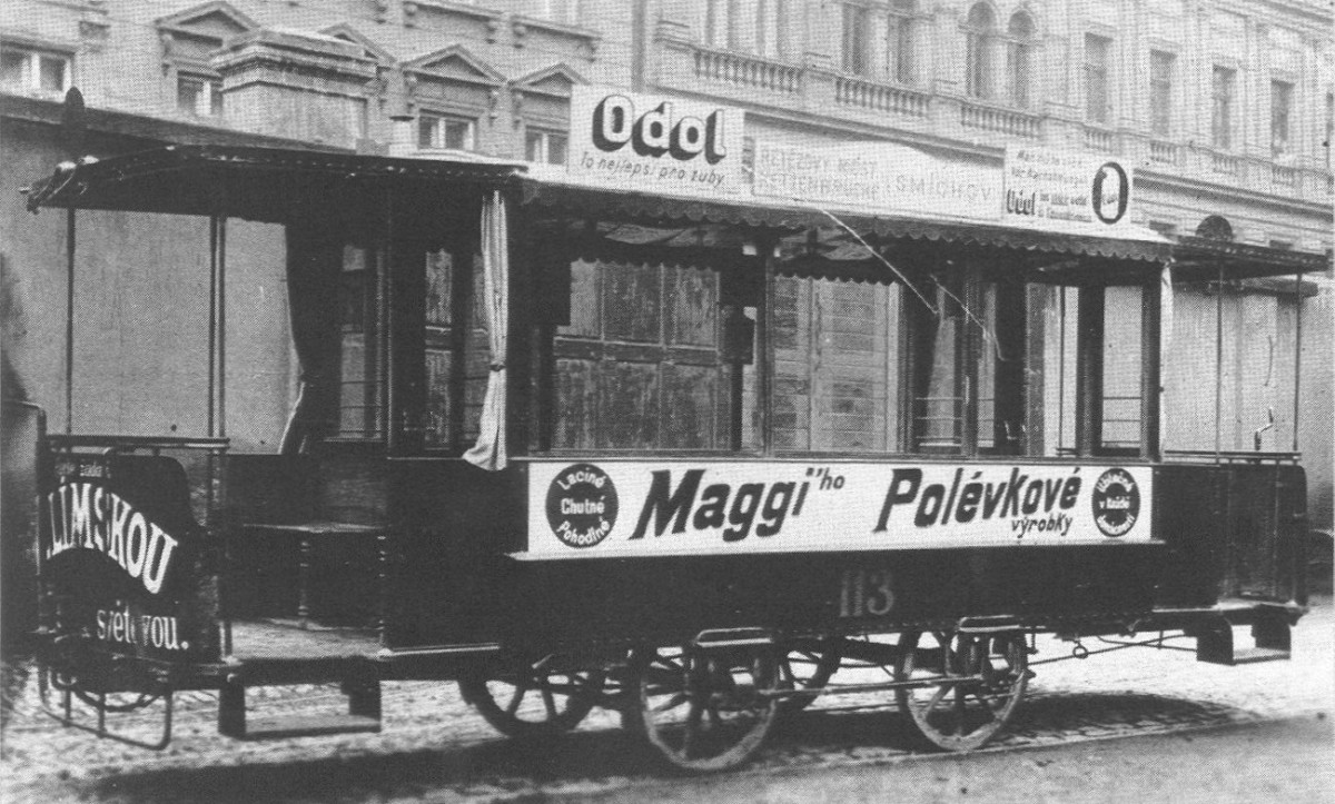 Horse tram No. 113, Prague, Bohemia (now Czech Republic)